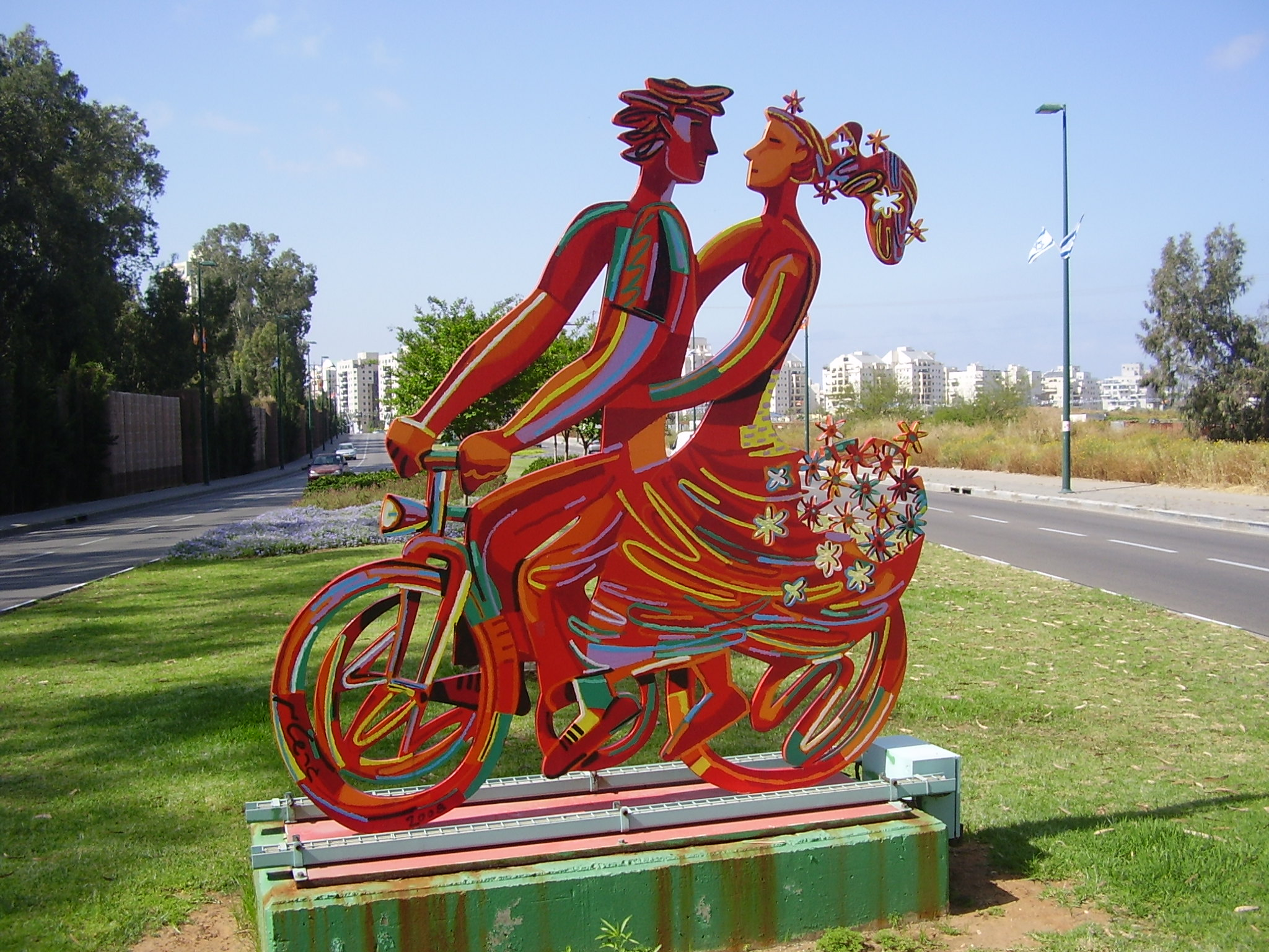 Sculpture by David Gerstein in Netanya